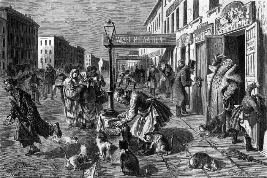 St. Petersburg's scenes and types. Nevsky Avenue, at eight o'clock in the morning. Engraving by I. Matiushin after a drawing by N.S. Negodaev. The First Half of the 1870s. From the series «City Life». Vsemirnaya Illustration Magazine (The World Illustration Magazine), 1875. V. XIII. - S. Petersburg: Hermann Hoppe Publishing, 1875